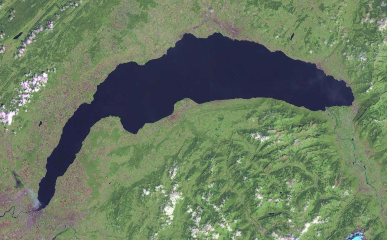 Satellitenaufnahme des Genfersees